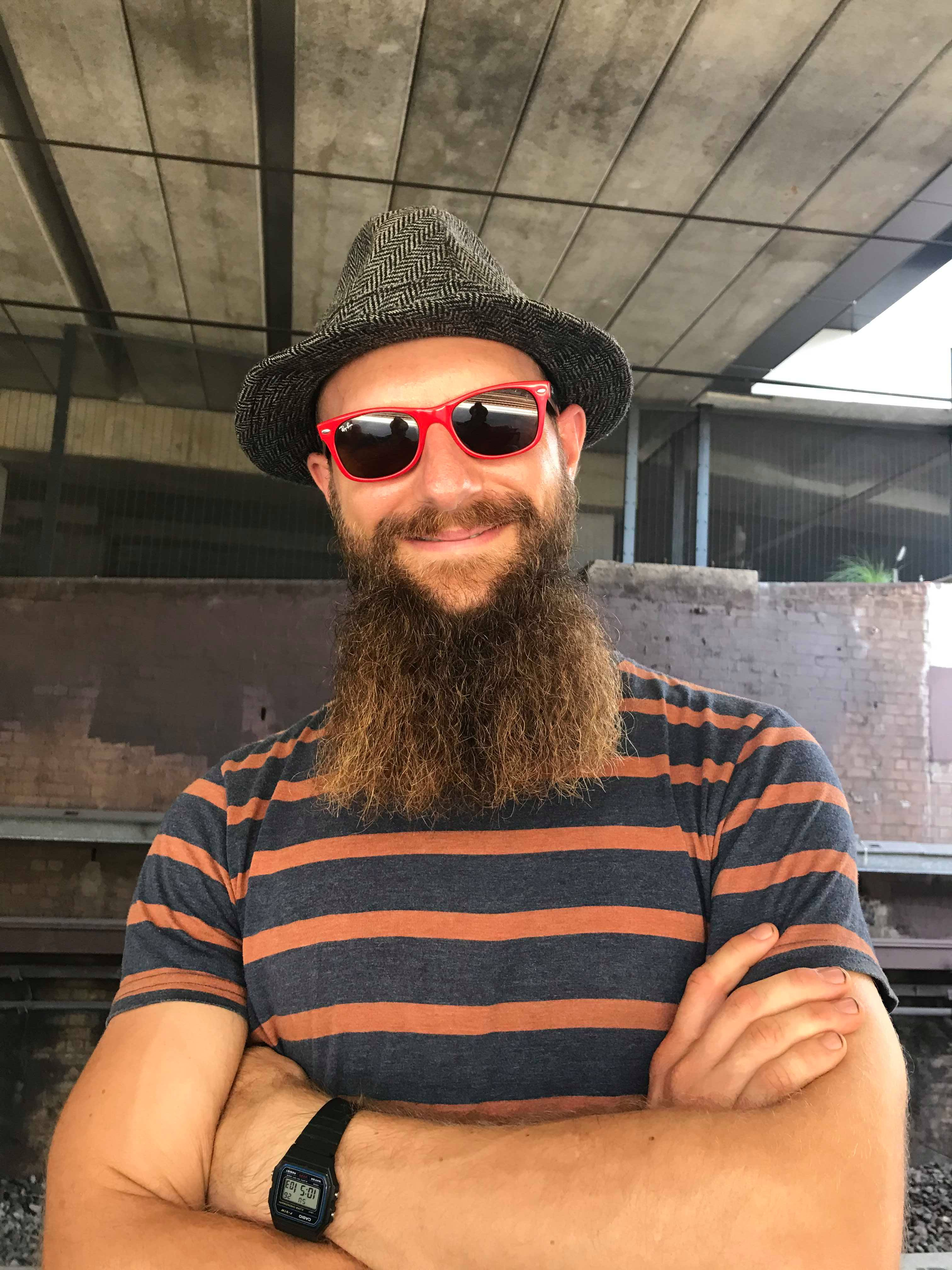 Taken in Newtown Station, Sydney in Janurary 2020. Typical attire of hipster subculture. retro casio watch, hat, beard, colourful glasses and old t-shirt.